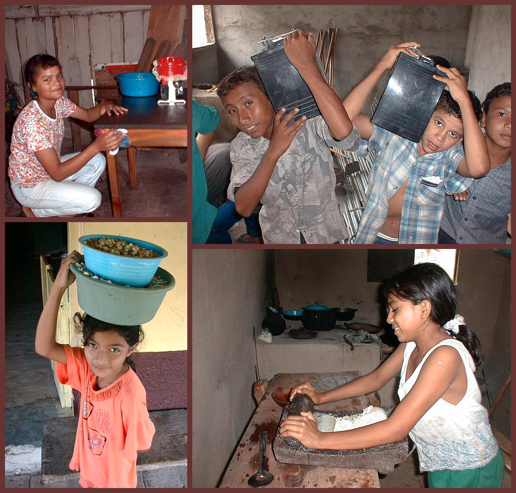 Honduran Workers 1999 Description: In general, the poor kids of Honduras are not afraid of hard work. Camera Info: OLYMPUS SR83 Digital Contact creator at - This image is also available there under the directory link "Composite Group 01" as a multi-layer .xcf file.